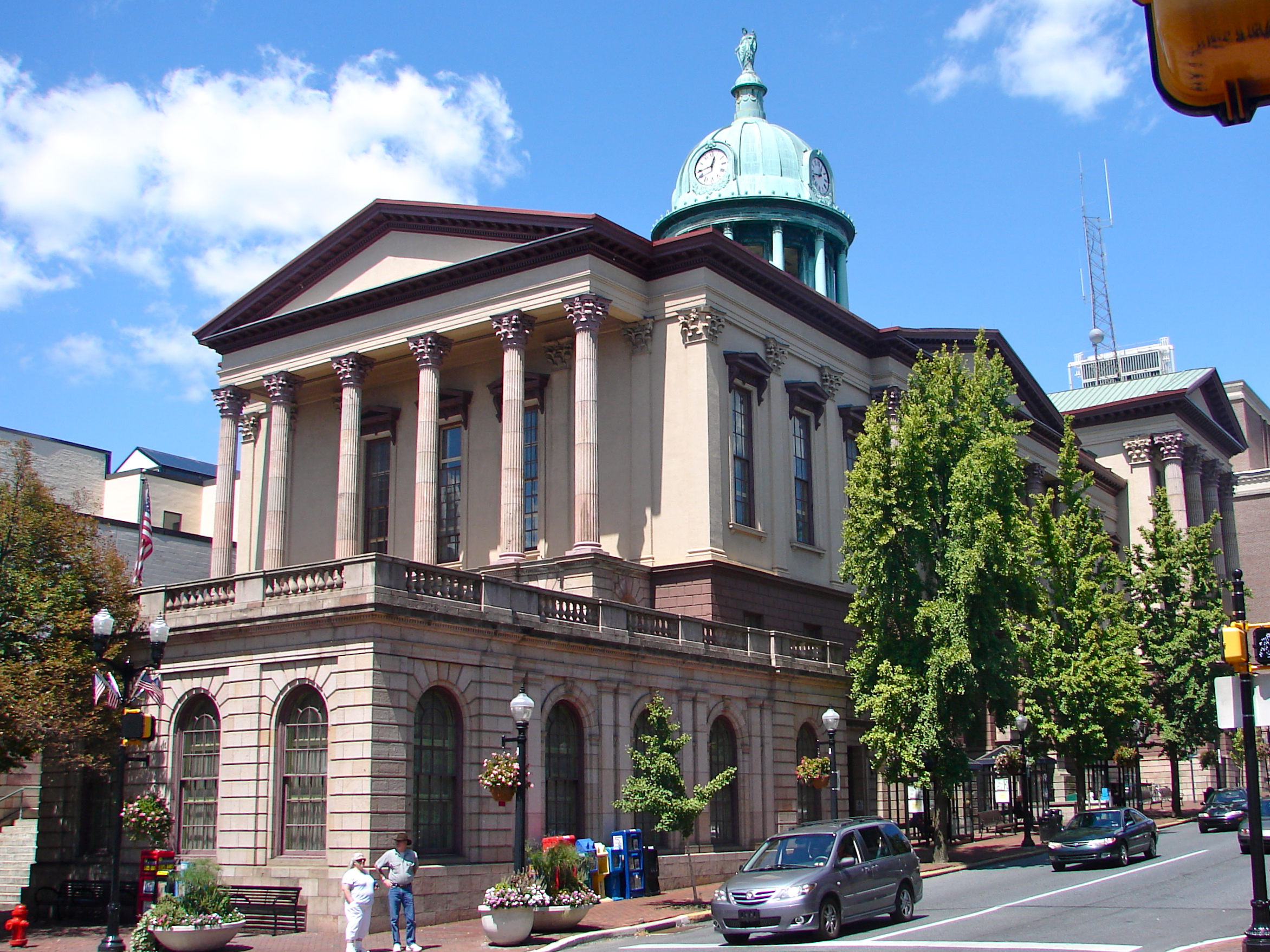 Lancaster County Courthouse, in the city of Lancaster, Pennsylvania, listed on the National Register of Historic Places in 1978. Part of the Lancaster City Historic District on the NRHP since September 7, 2001. The historic district includes essentially the entire town.